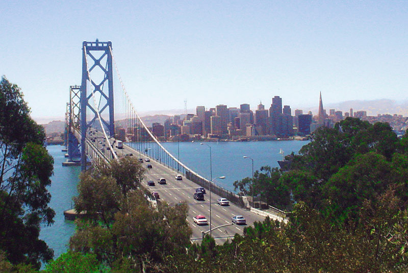 The suspension (western) portion of the San Francisco-Oakland Bay Bridge and downtown San Francisco as seen from Yerba Buena Island in San Francisco Bay.